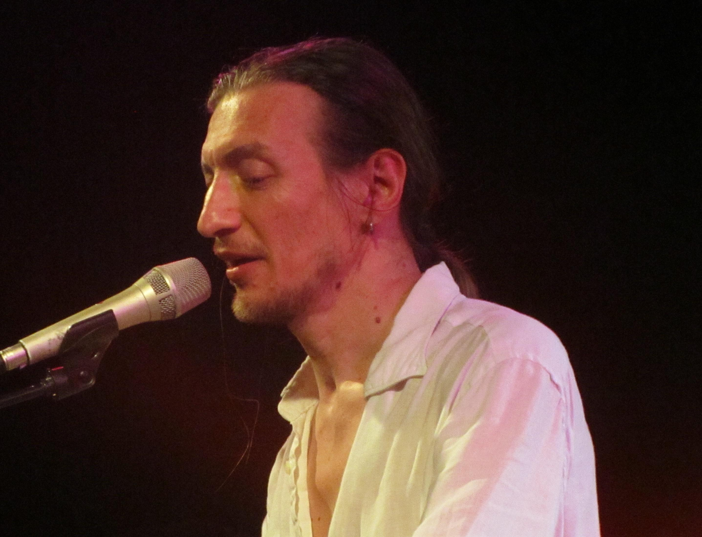 Lorenzo Monguzzi singer of Mercanti di Liquore